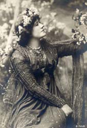 Ellen Terry as Guinevere in the play King Arthur by J. Comyns Carr in the Lyceum Theatre production, designed by Sir Edward Burne-Jones. American postcard (mailed January 12, 1895) based on a rotogravure to promote the US tour. The New York Public Library for the Performing Arts, Billy Rose Theatre Collection.